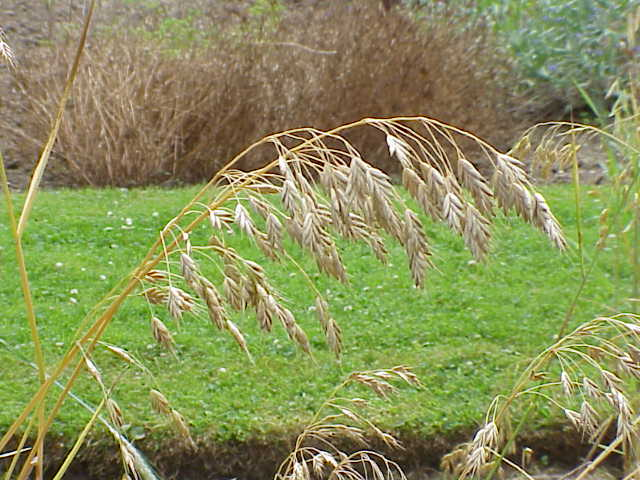 Species: Bromus secalinus Family: Poaceae Image No. 3